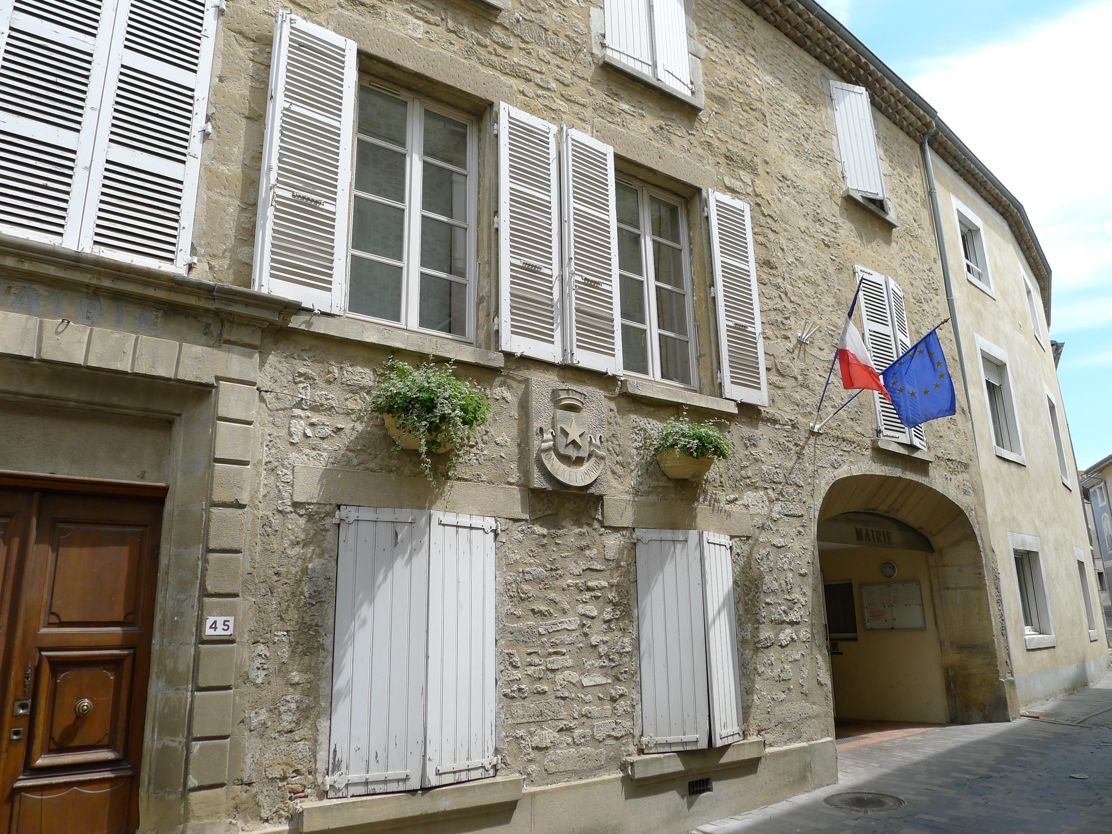 Town hall of Étoile-sur-Rhône - Drôme - France